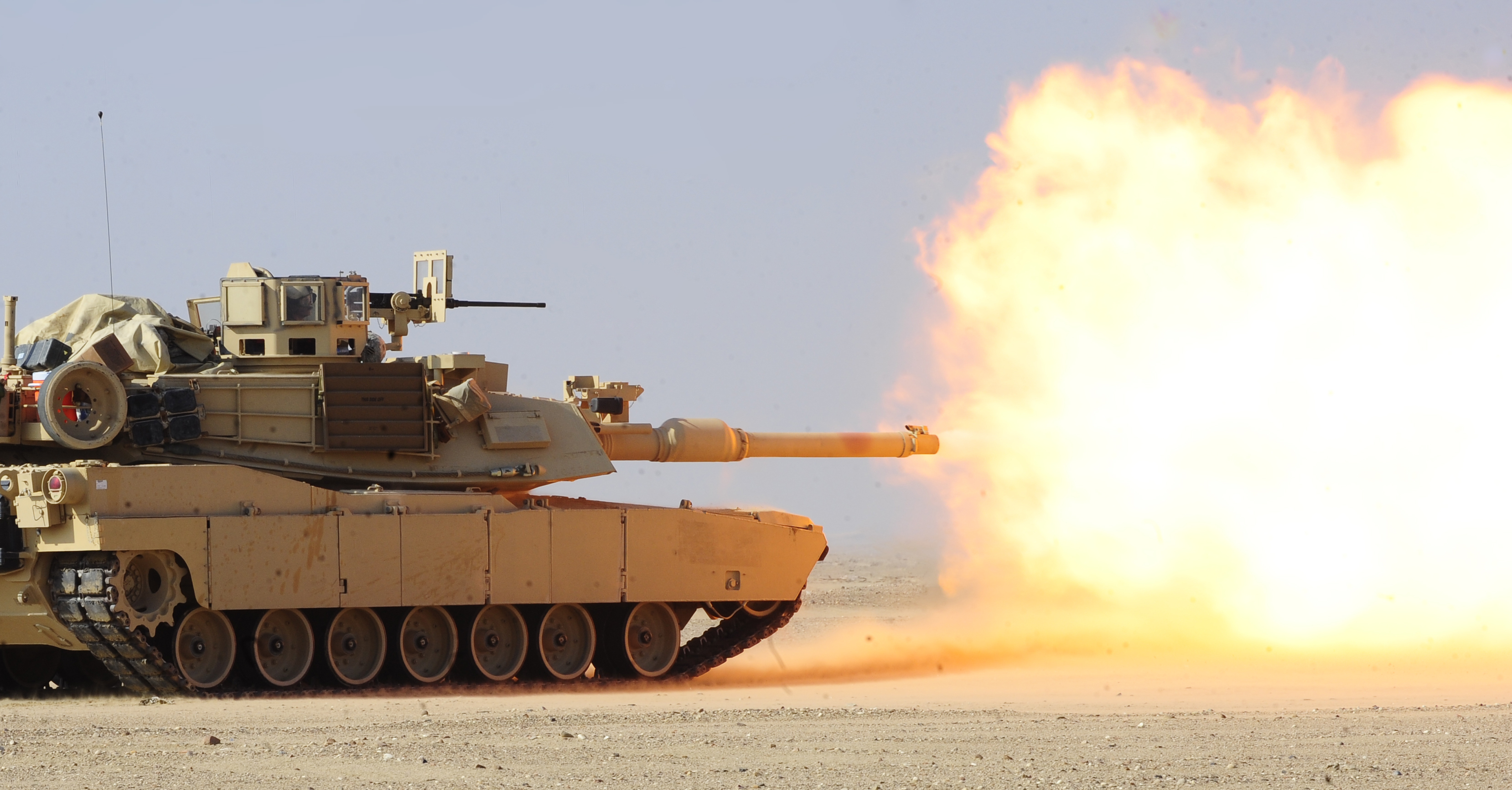 An M1A2 Main Battle Tank fires at a target during Saweyan Shield, a defensive live fire exercise, at the Udairi Range Complex near Camp Buehring, Kuwait, Nov. 28. Saweyan is the Arabic word for “together”. Soldiers assigned to 3rd Armored Brigade Combat Team, 3rd Infantry Division have been conducting partnership training with Kuwaiti Land Forces since deploying to Kuwait nearly six months ago, building upon the military ties between Kuwait and the U.S.